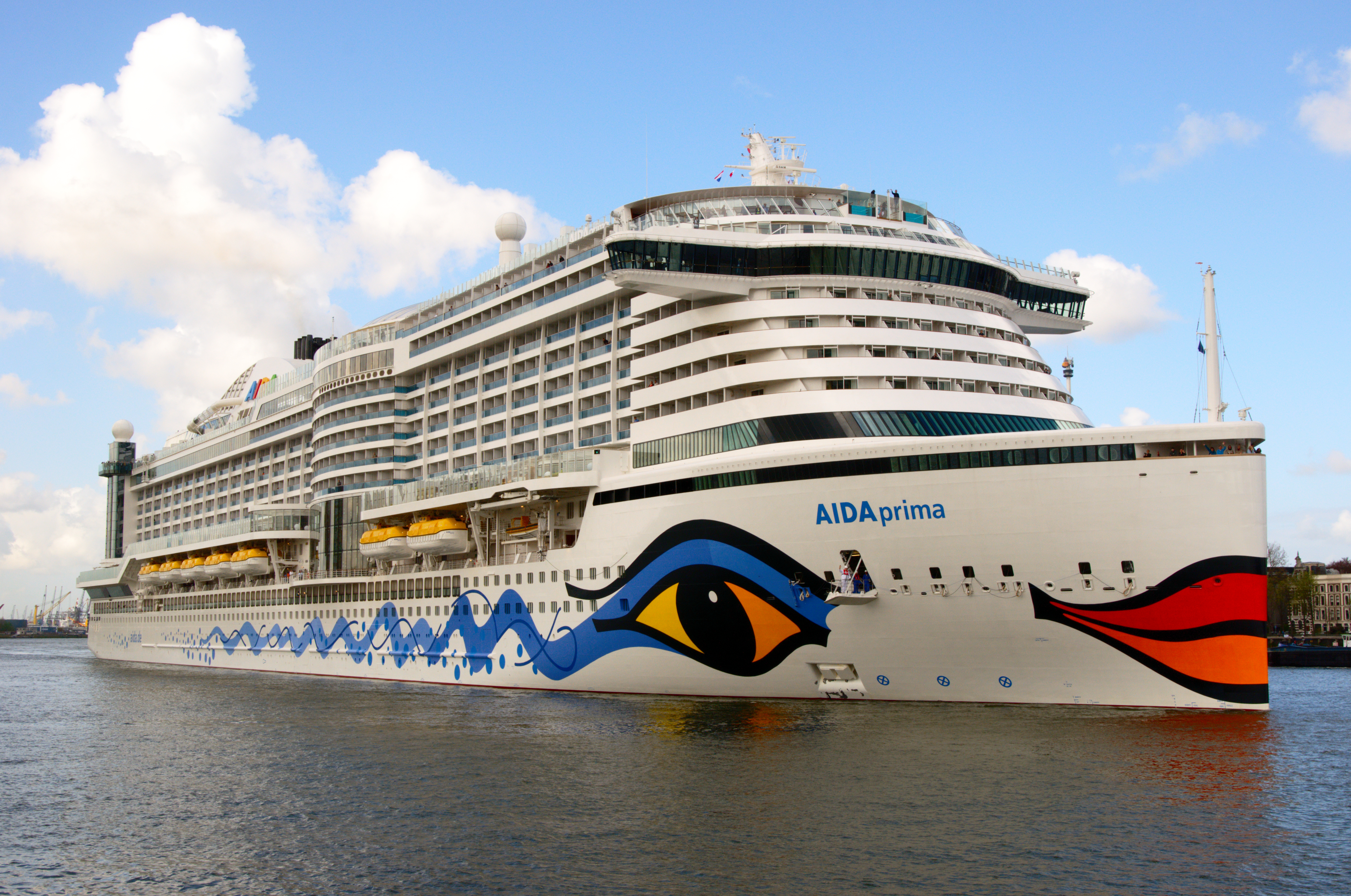 AIDAprima in the port of Rotterdam